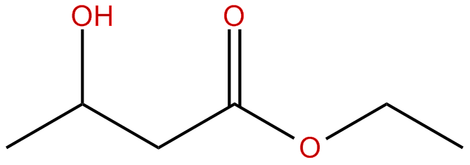 ß-Hydroxybutryate Ester